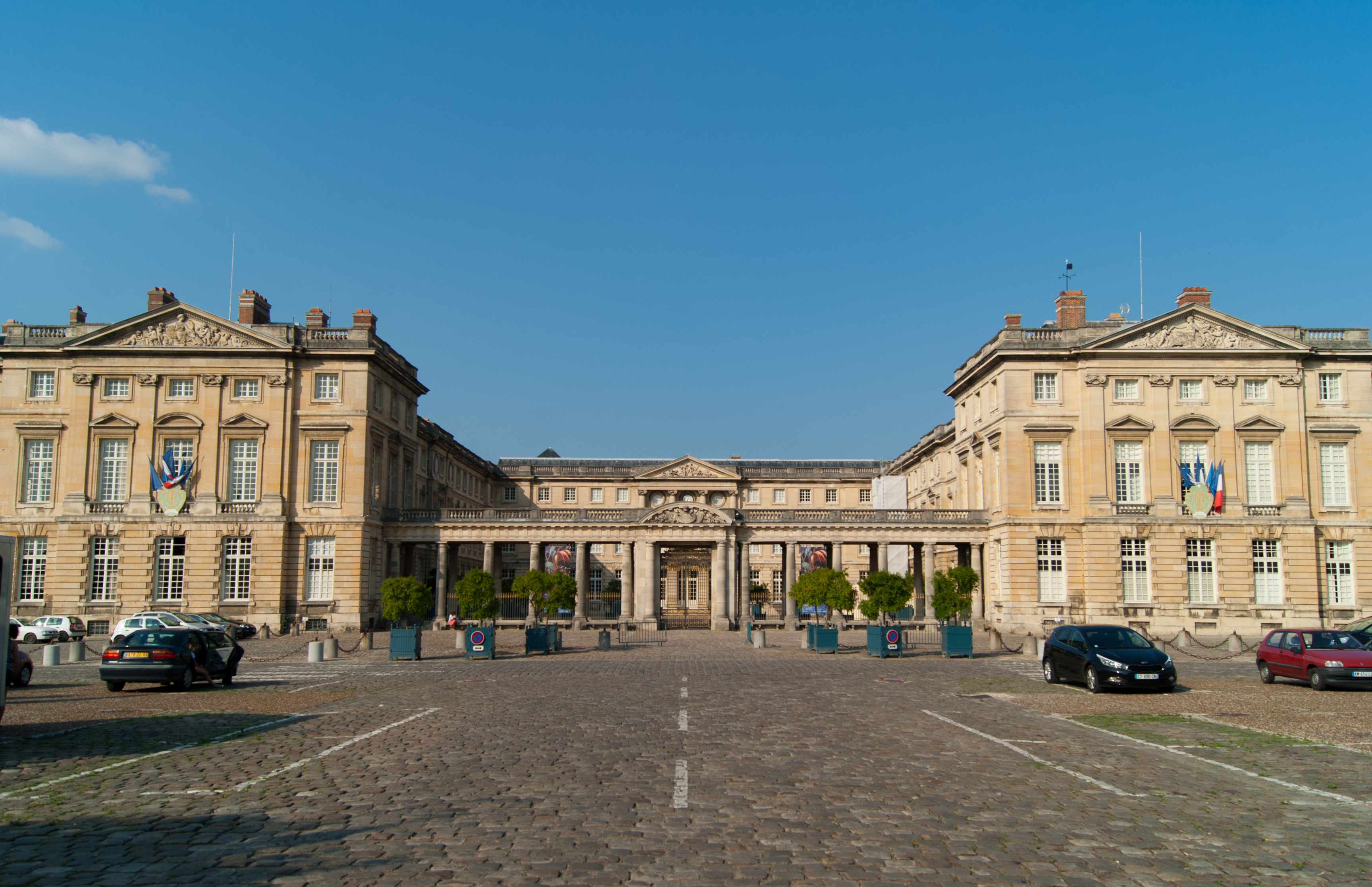 The Château de Compiègne, seen from the Place du Général de Gaulle